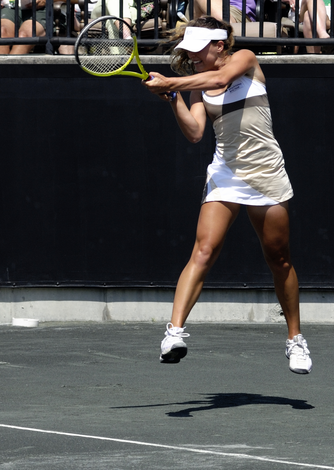 Michelle Larcher de Brito at Family Circle Cup 2010.